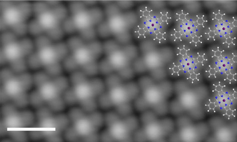 STM topography of a manganese(II) phthalocyanine monolayer on Pb(111), partially overlaid with ball-and-stick structure models (V=50 mV, I=200 pA; scale bar is 2 nm).